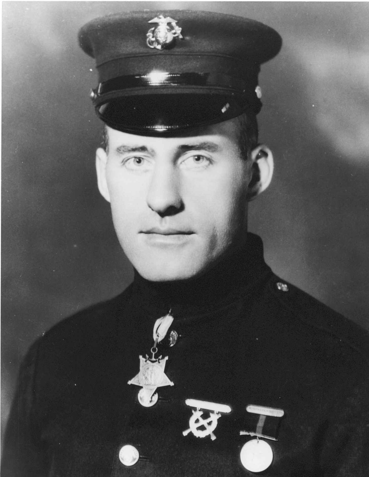 Roswell Winans, USMC, Medal of Honor recipient